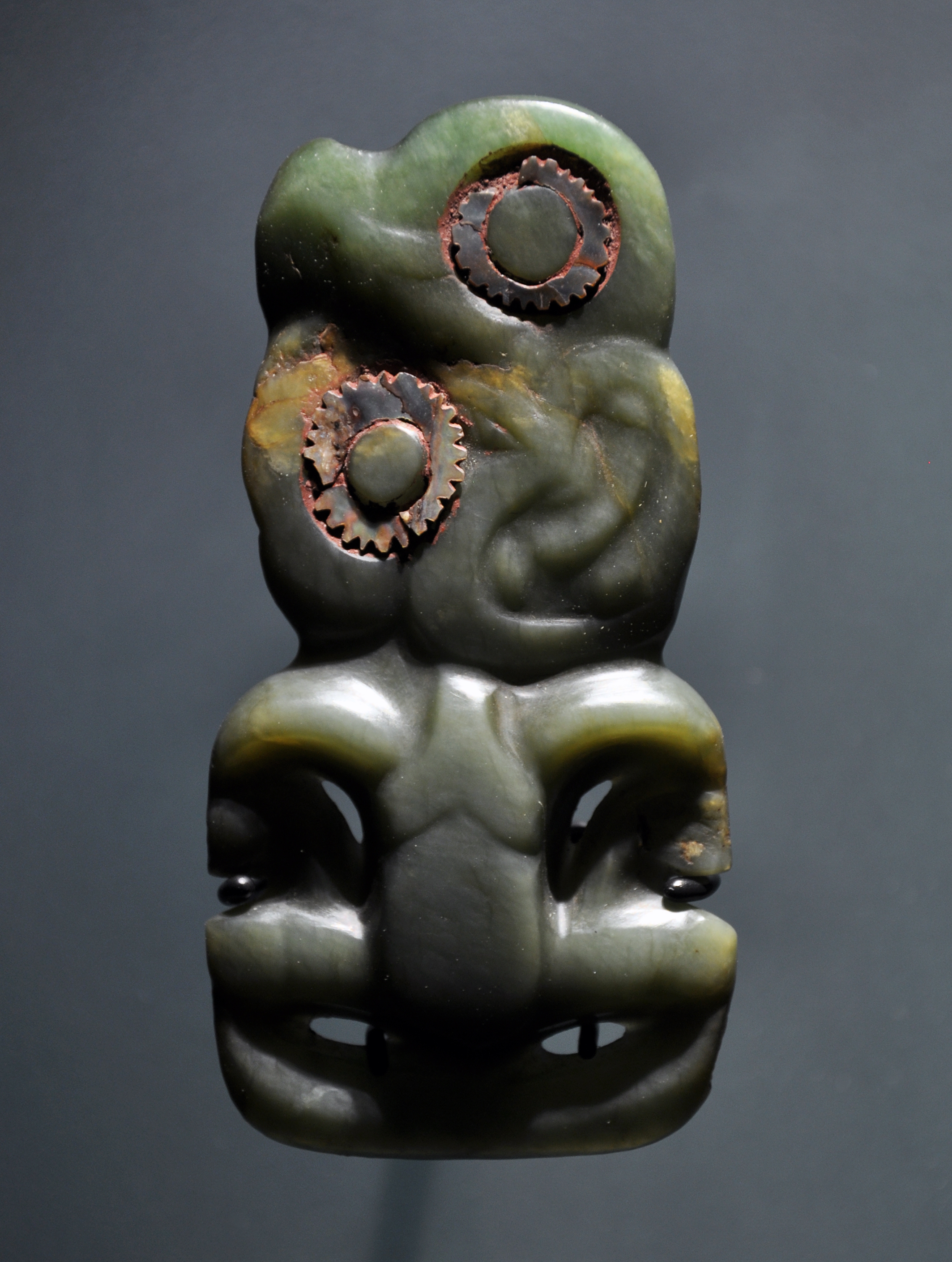 Anthropomorphic pendant (hei tiki), jade (nephrite), abalone shell and pigments, Maori culture, 1500-1850. In the exhibition "Maori, their treasures have got a soul", in the Musée des Arts Premiers in Paris, from the end of 2011 to the begining of 2012.